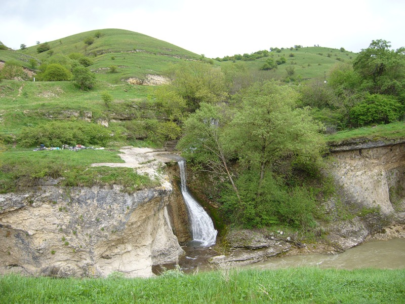 River Big Zelenchuk